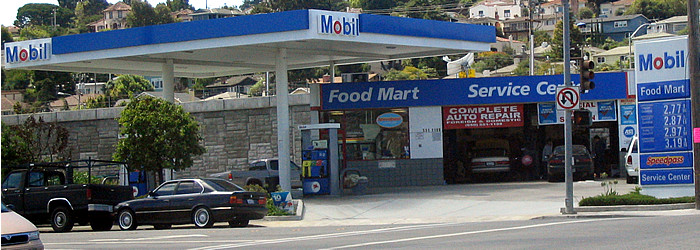 A typical Mobil gas station. This one is located in Belmont on Harbor Boulevard. Photographed by user Coolcaesar on August 18, 2005.